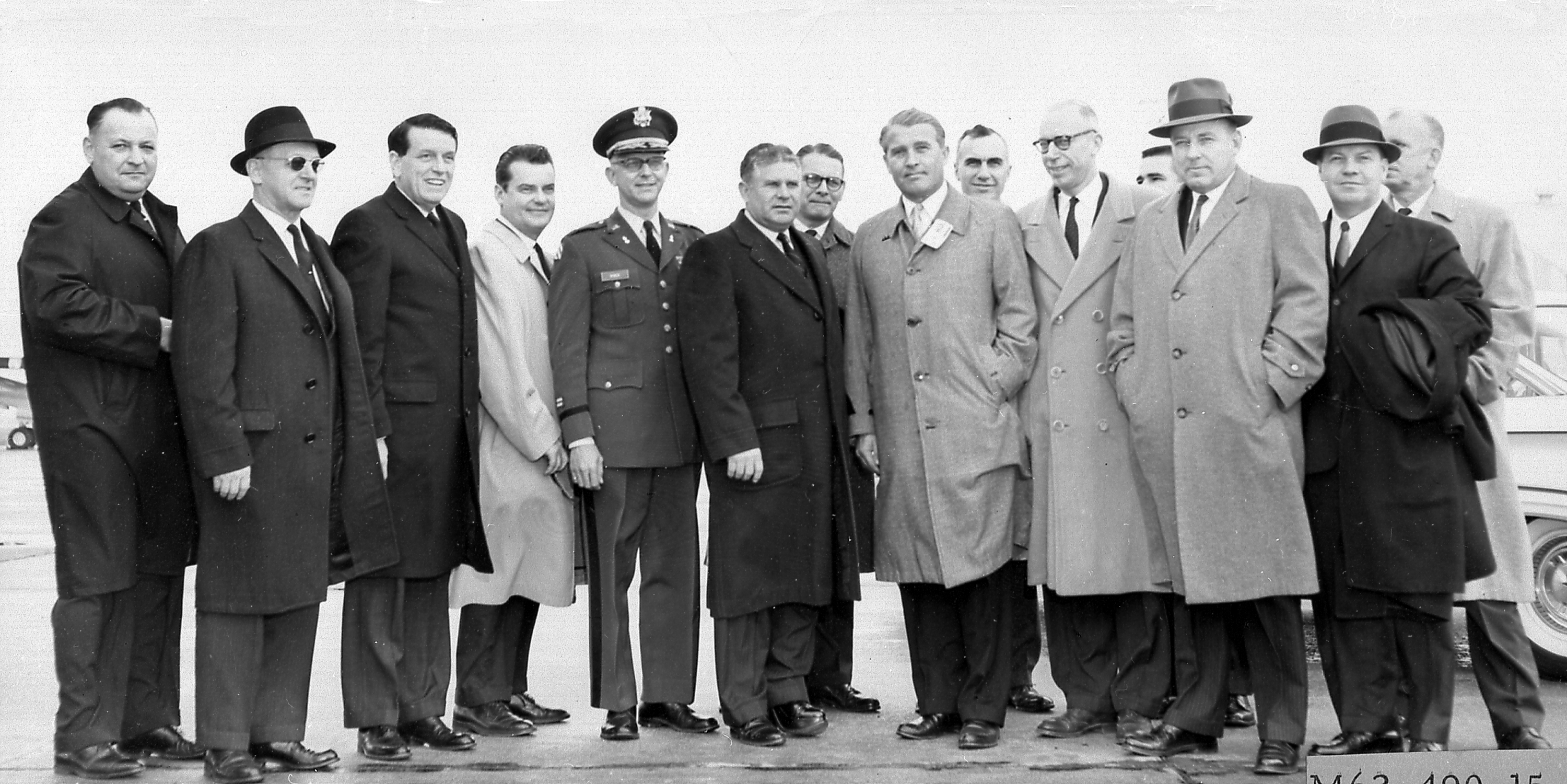 The members of the House Committee on Science and Astronautics visited the Marshall Space Flight Center (MSFC) on March 9, 1962 to gather first-hand information of the nation's space exploration program. The congressional group was composed of members of the Subcommittee on Manned Space Flight. Headed by Representative Olin E. Teague of Texas, other members were James G. Fulton, Pennsylvania (appears to be 3rd person from left); Ken Heckler, West Virginia; R. Walter Riehlman, New York; Richard L. Roudebush,, Indiana; John W. Davis, Georgia; James C. Corman, California; Joseph Waggoner, Louisiana; J. Edgar Chenoweth, Colorado; and William G. Bray, Indiana.